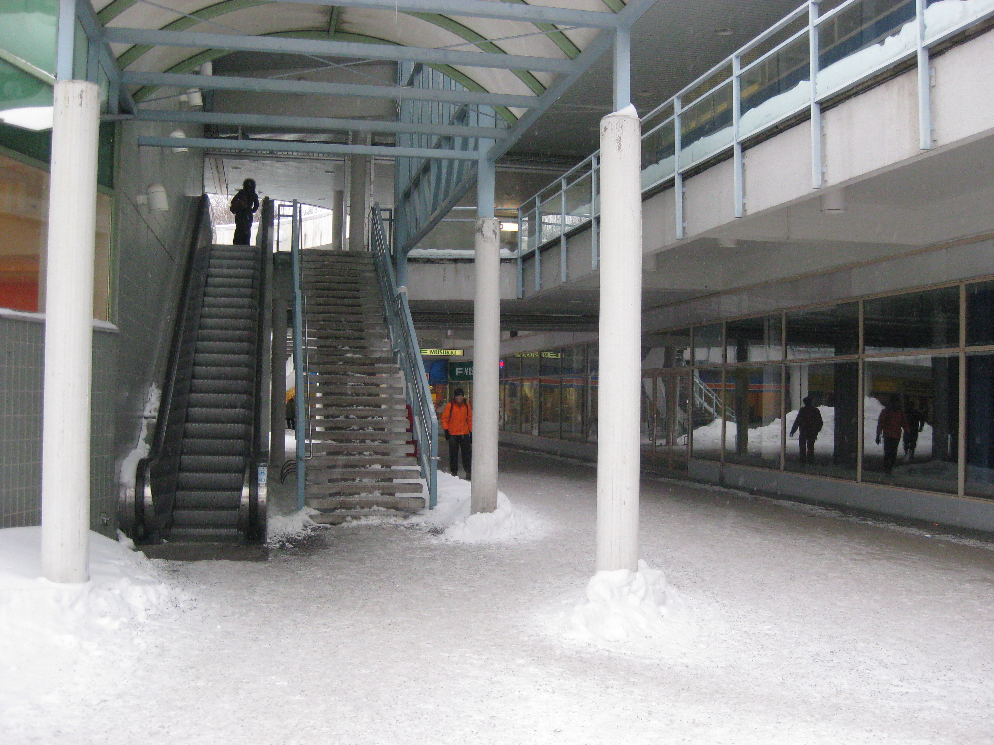 Puhos in Helsinki